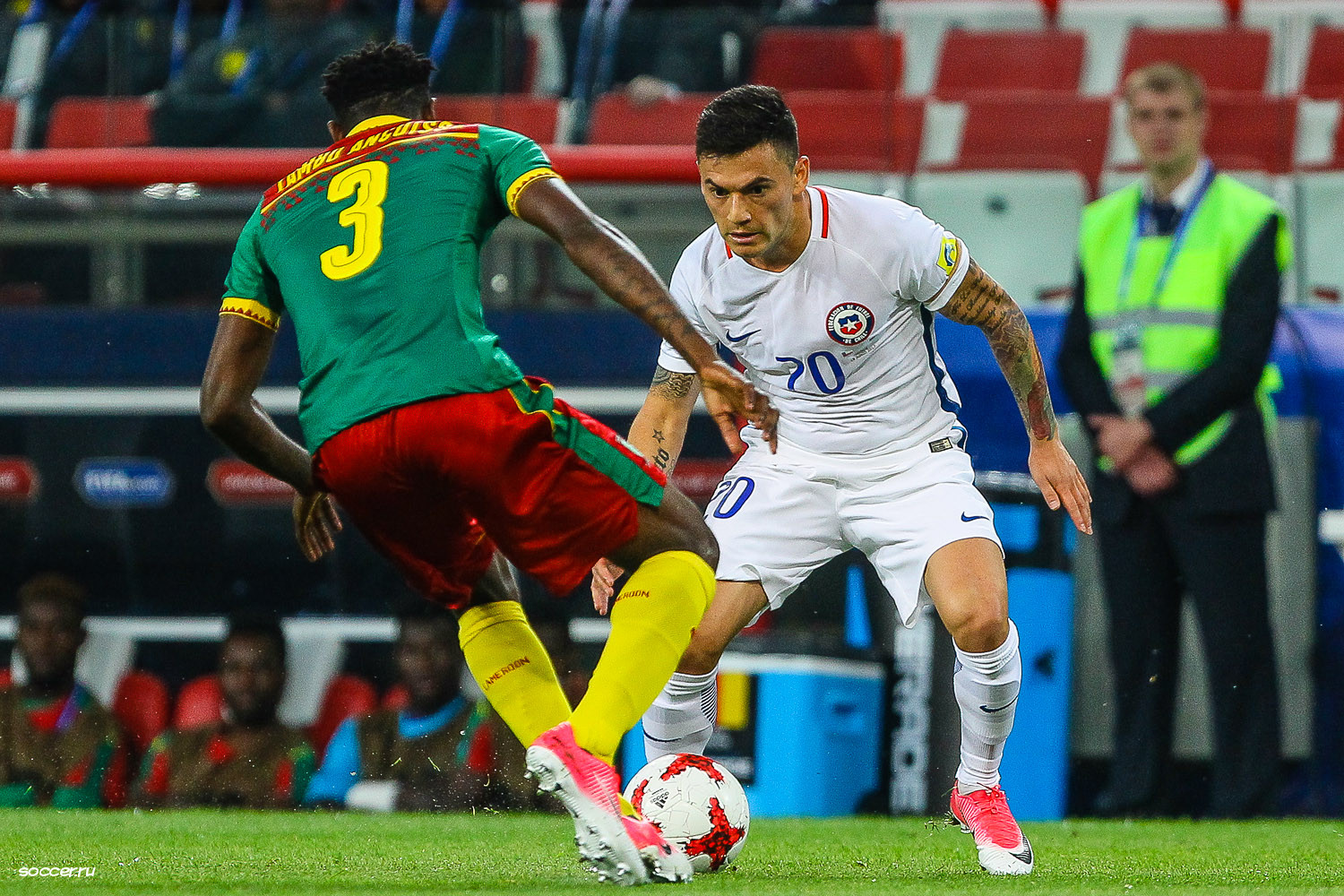 Cameroon vs Chile (0-2). FIFA Confederations Cup 2017